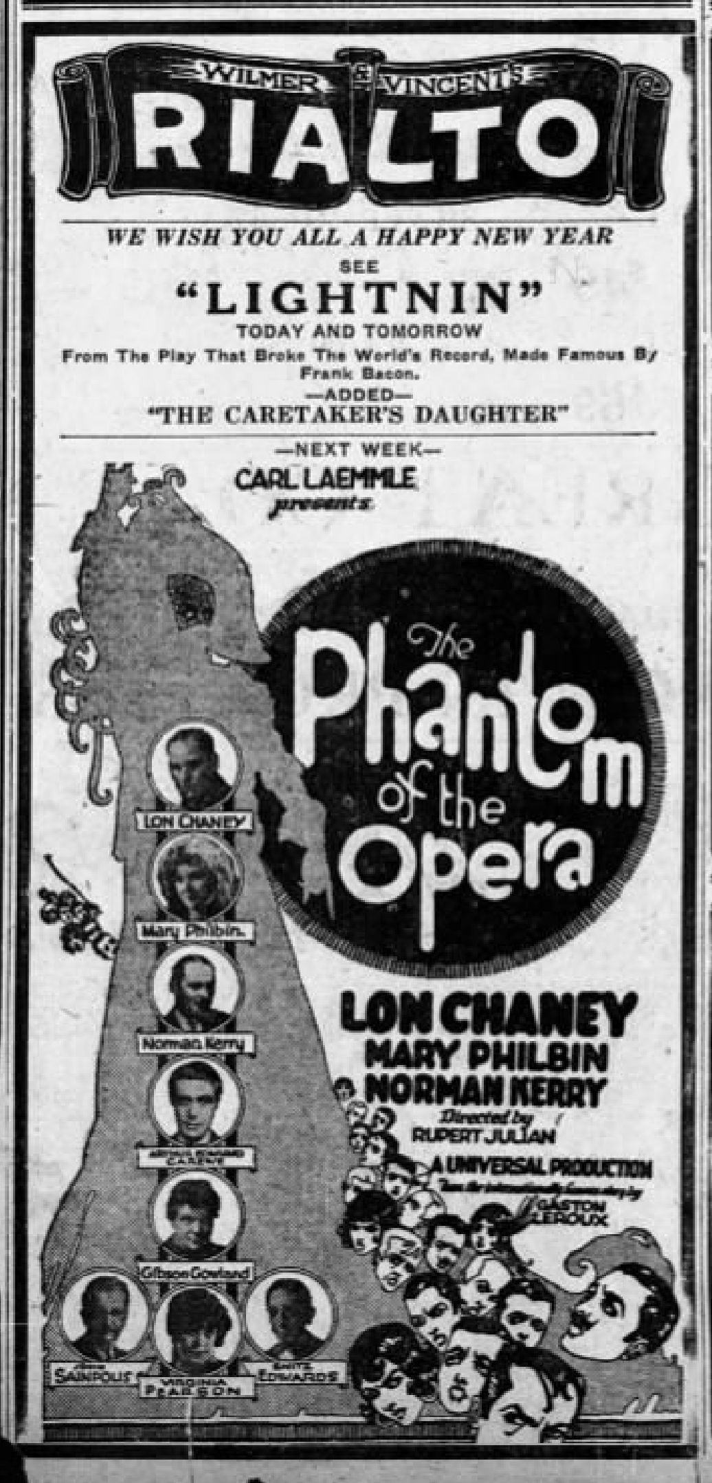 Rialto Theater advertisement for the American horror film The Phantom of the Opera (1925) - 1 Jan. 1926 Morning Call, Allentown PA